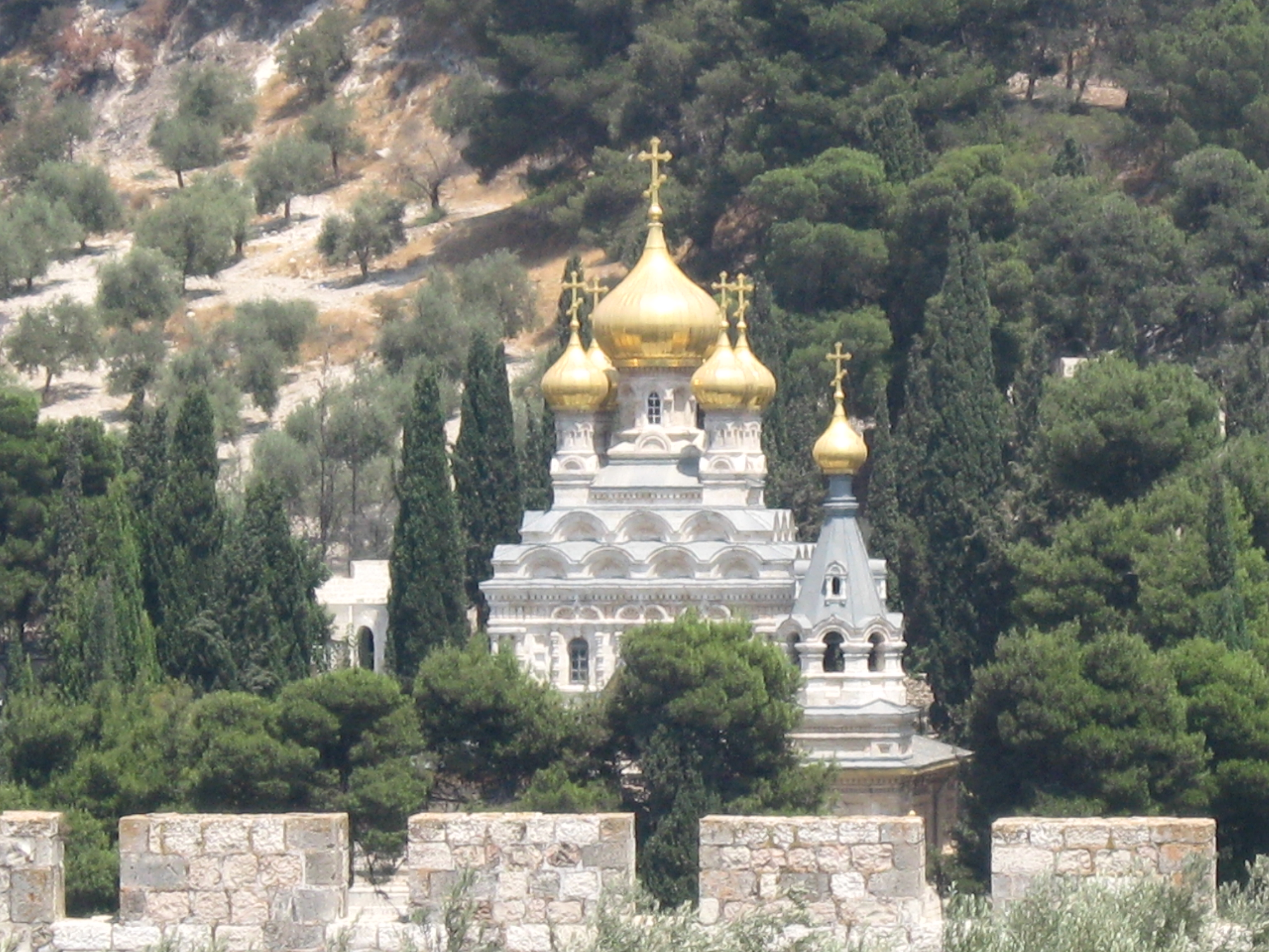 View, from the Temple Mount, on the Church of Mary Magdalene